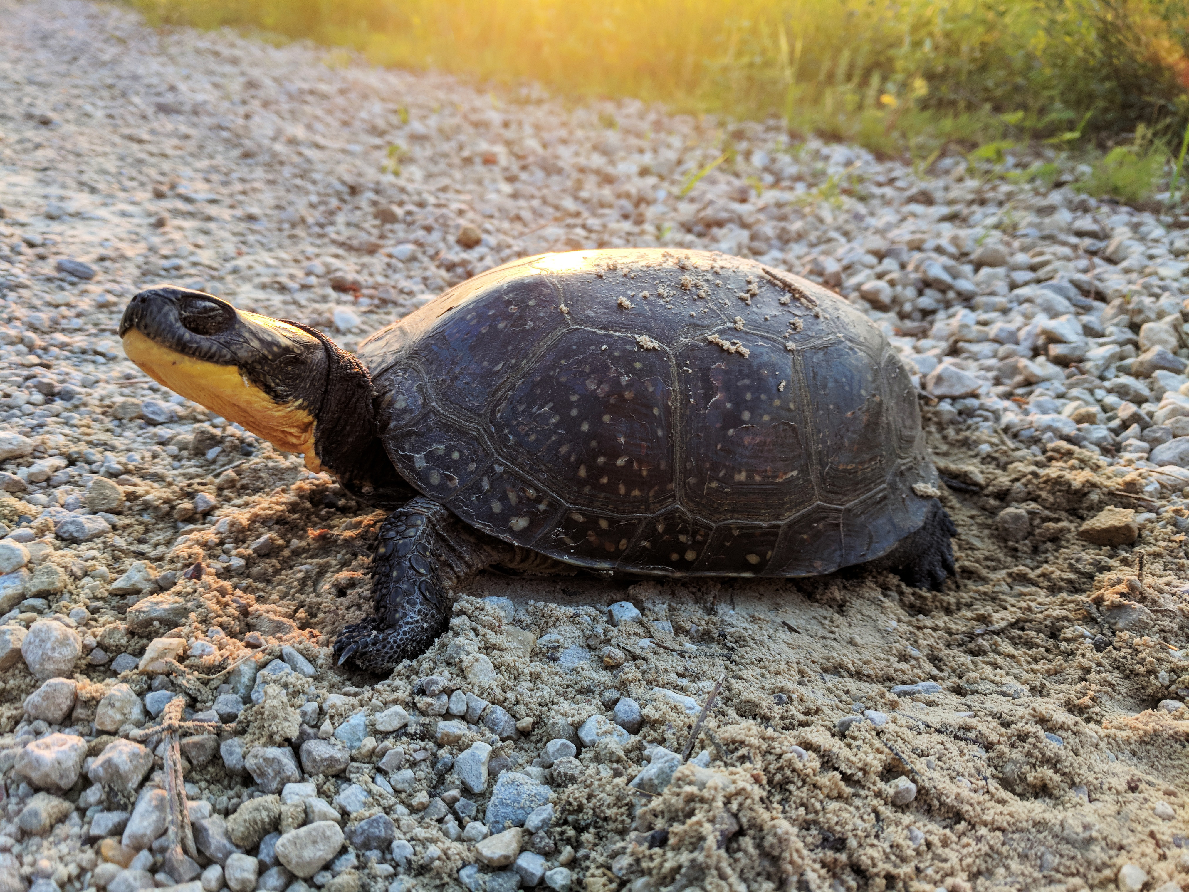 Blanding's turtles are listed as threatened in the state of Minnesota and are a species of special concern in surrounding states. Right now, these turtles are moving upland to lay eggs. Turtle crossing signs help alert motorists of their presence. Photo by Courtney Celley/USFWS.